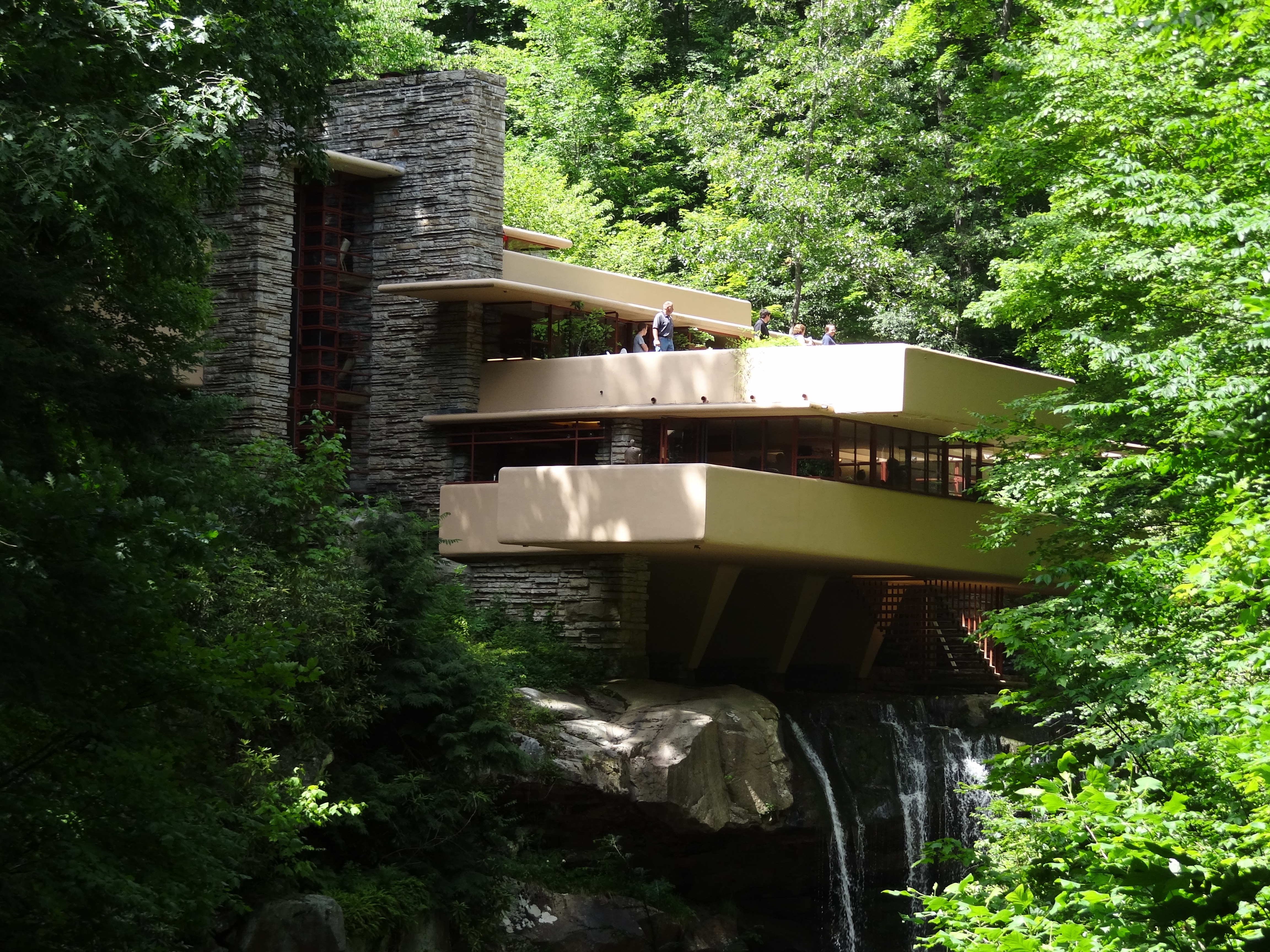 Fallingwater (Frank Lloyd Wright) - Mill Run PA